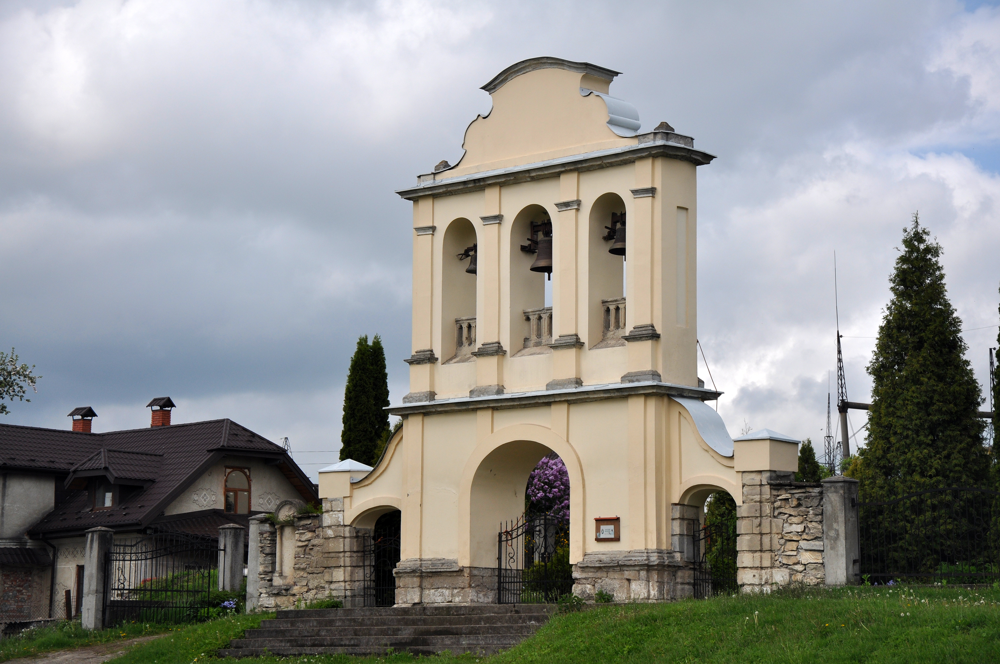 Bell tower of the Exaltation of the Holy Cross church in Berezdivtsi, Ukraine